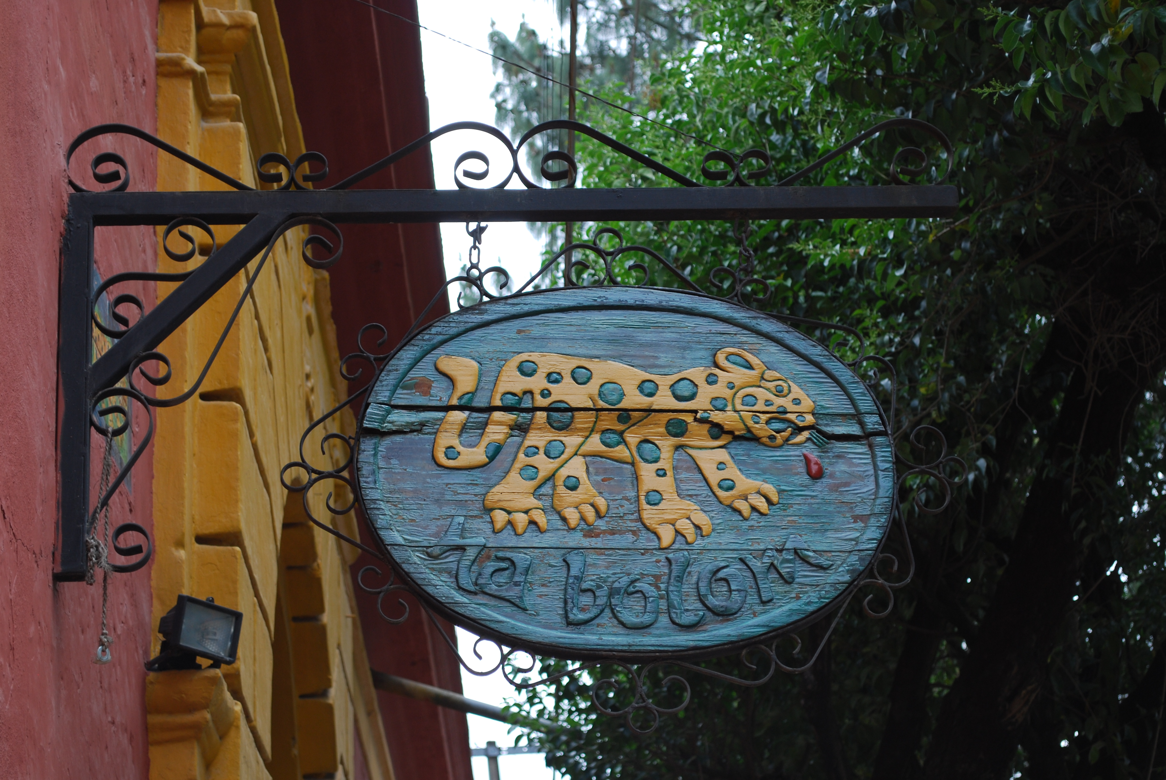 sign for the Na Bolom Museum in San Cristobal de las Casas, Chiapas, Mexico